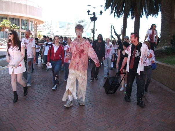 Zombies involved in the Epic Zombie Lurch held in Sydney on November 14, 2009.